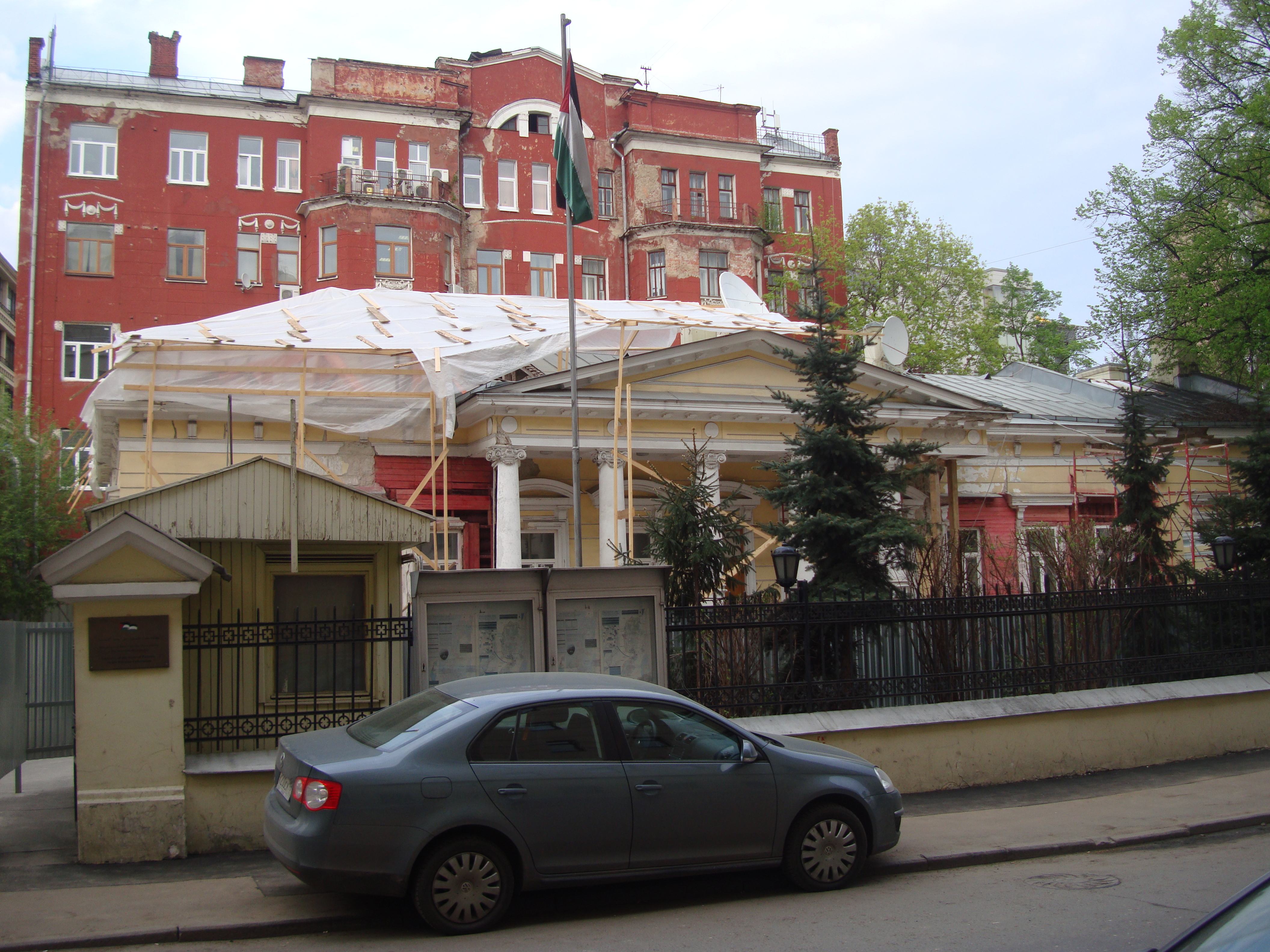 26 Kropotkinskii Lane, Khamovniki District, Moscow, Russia. Embassy of Palestine. Кропоткинский переулок, д.26, Хамовники, Москва, РФ. Посольство Палестины.